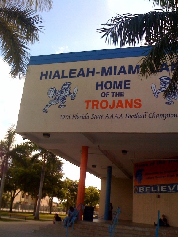 Hialeah-Miami Lakes Senior High, 2009